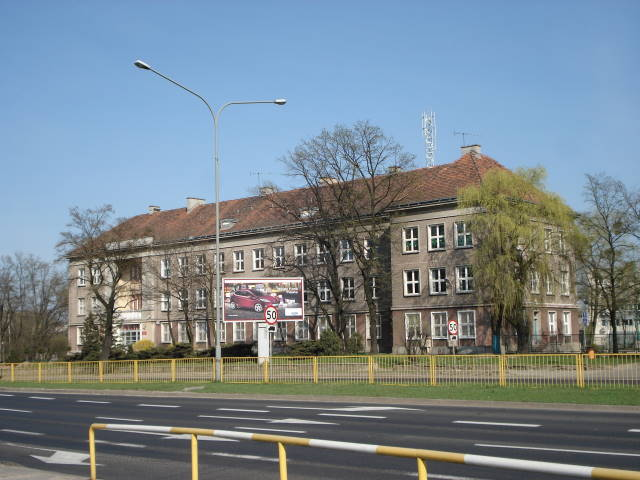 Dąbrówka Grammar School No. 7 in Poznań